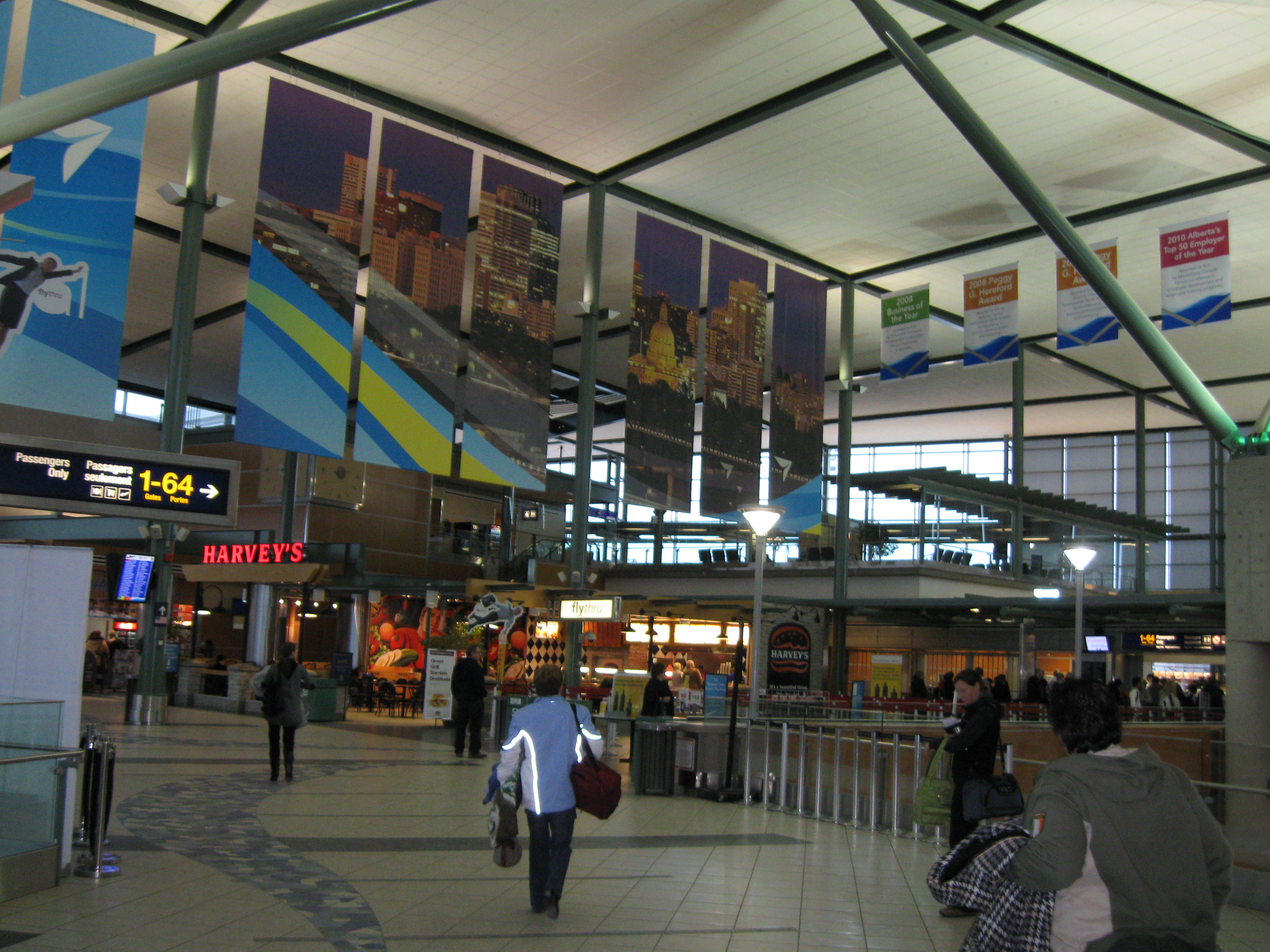 Central hall of CYEG